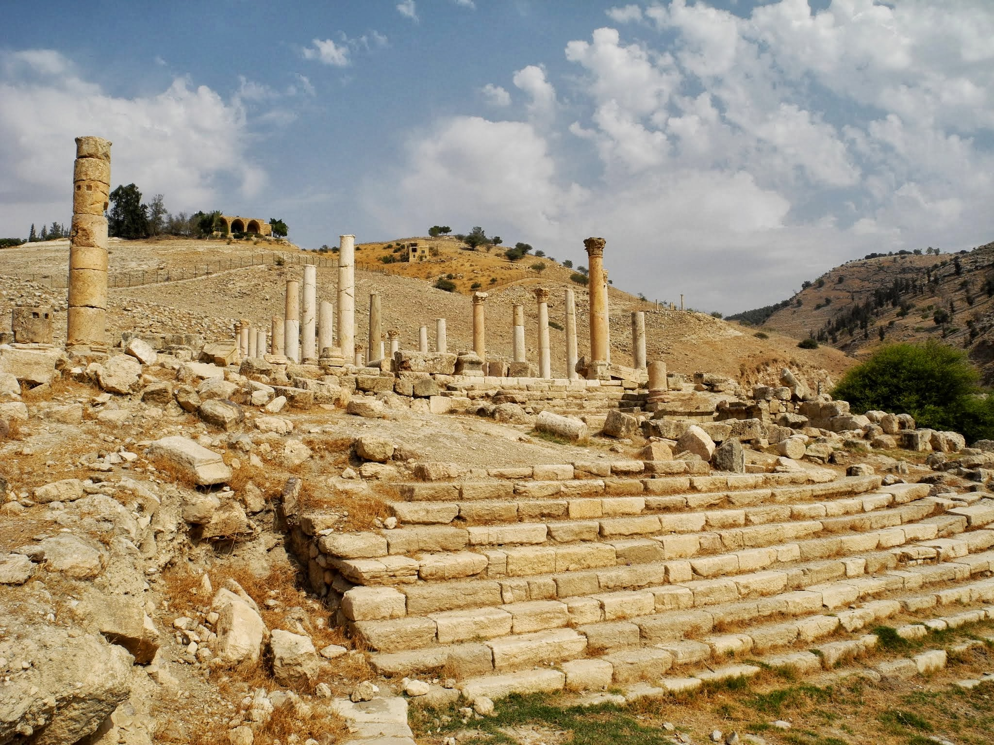 Pella Mountain Trail - At Pella